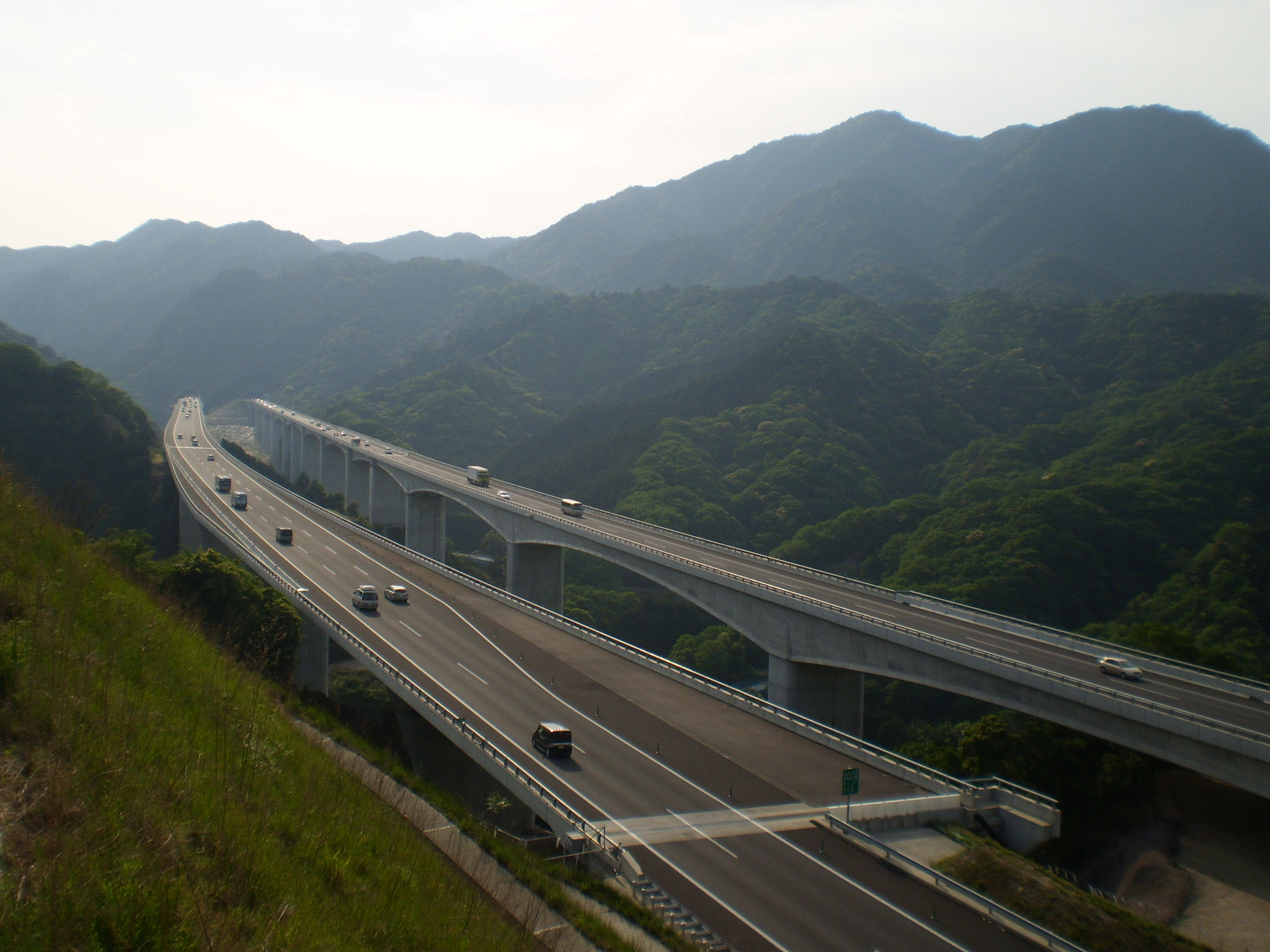 The Kirigataki Bridge on the Shin-Meishin Expressway in Asakayamacho, Kameyama City, Mie Prefecture, Japan